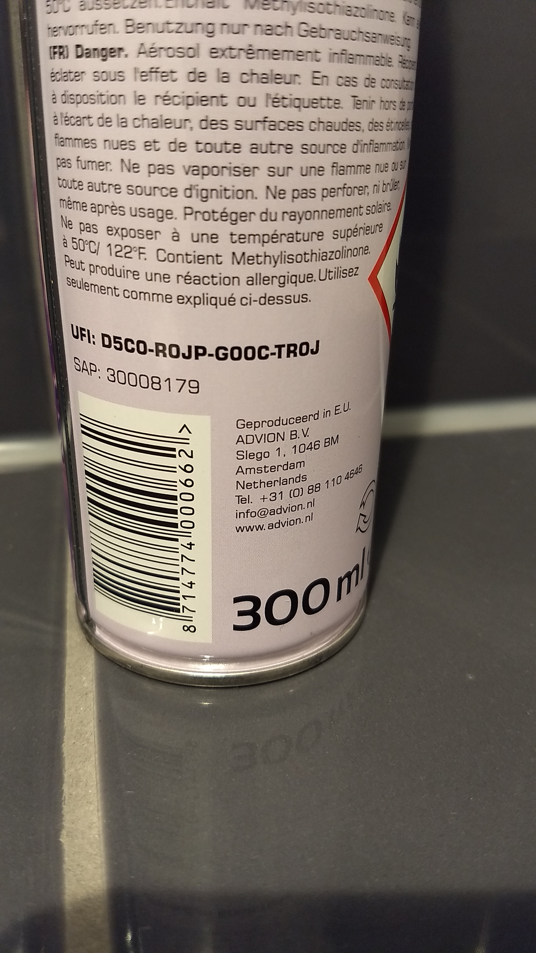 The back of a can of Zone brand lavender air freshener, showing the UFI, UPC, SAP, manufacturer name and address and volume.